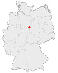 Location map of Wolfenbüttel in Germany